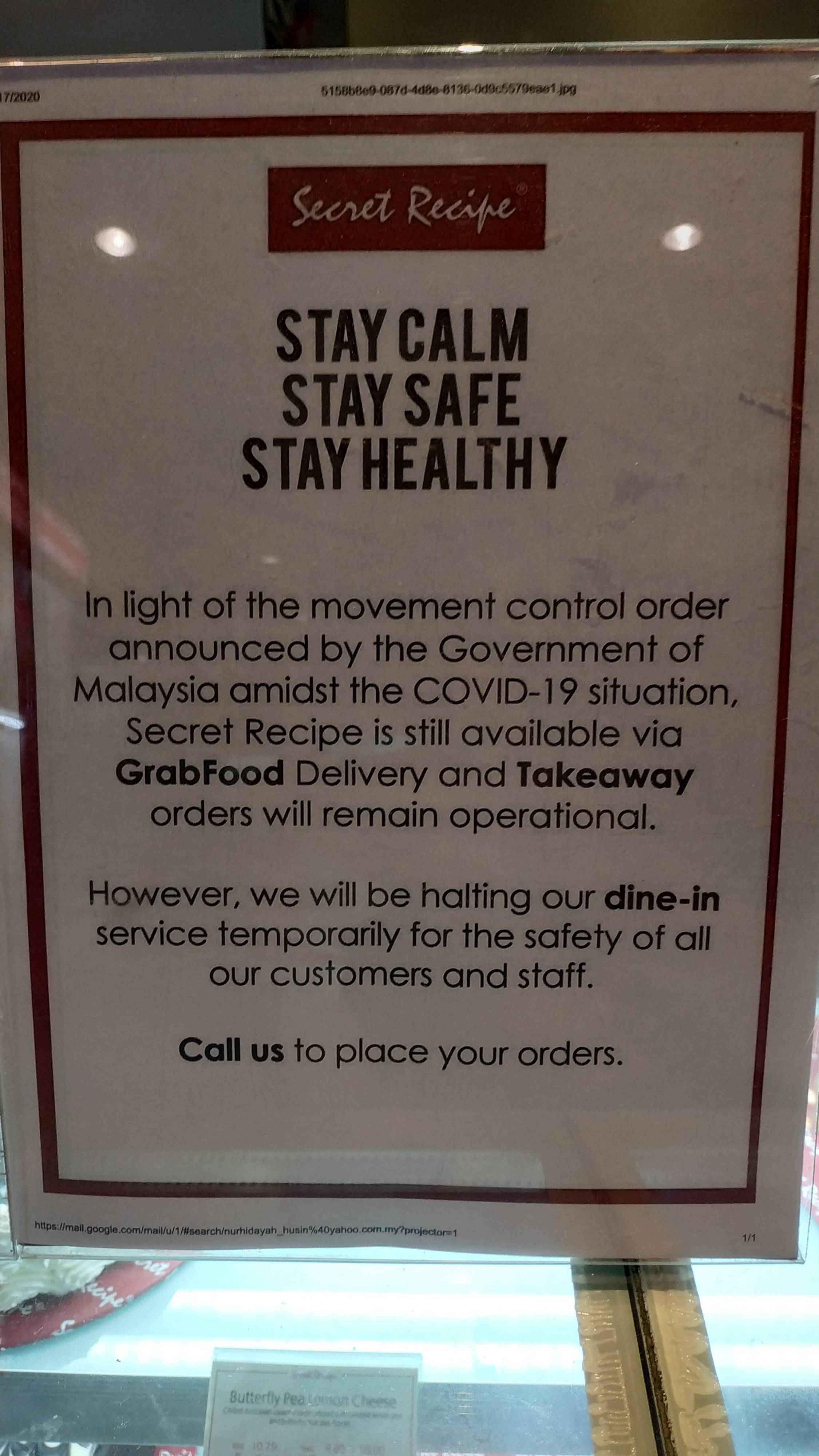 Sign at Secret Recipe, Brem Mall, Kuala Lumpur during Covid-19 lockdown in March 2020